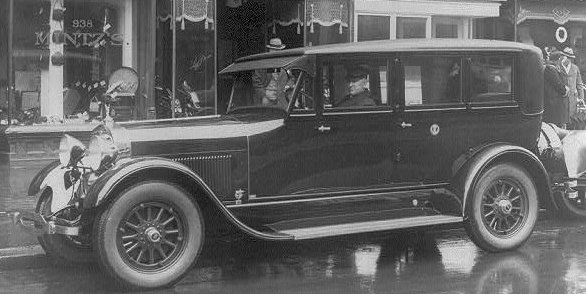 Lincoln Limousine used by U.S. President Calvin Coolidge, 1920s, from